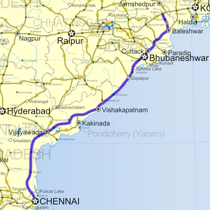 National Highway 5 in India